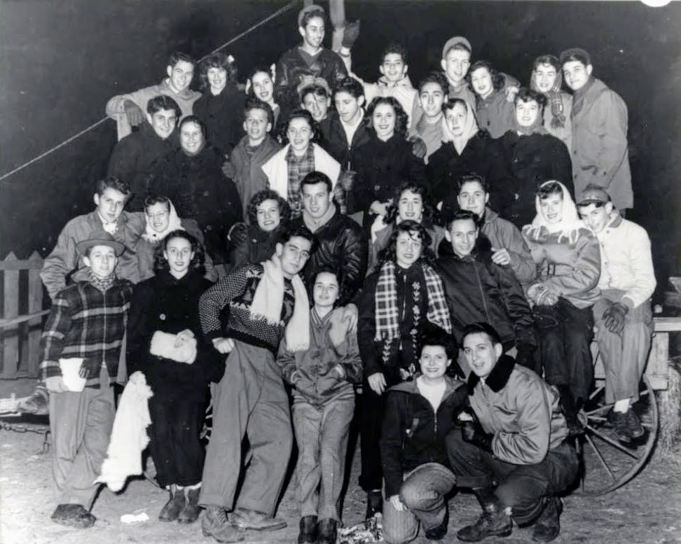 Date: 1949 Source: 25 cm x 20.5 cm Format: Black and white photo Subject: Education; Youth; Fraternities; Sororities Coverage: Minneapolis; Hennepin; Minnesota; United States Local Identifier: 0463p Link to our record: From the Steinfeldt Photography Collection of the